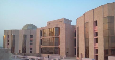 ComputerCentre